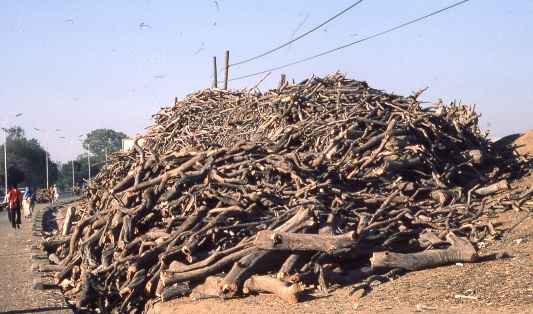 Fuel wood à Kano